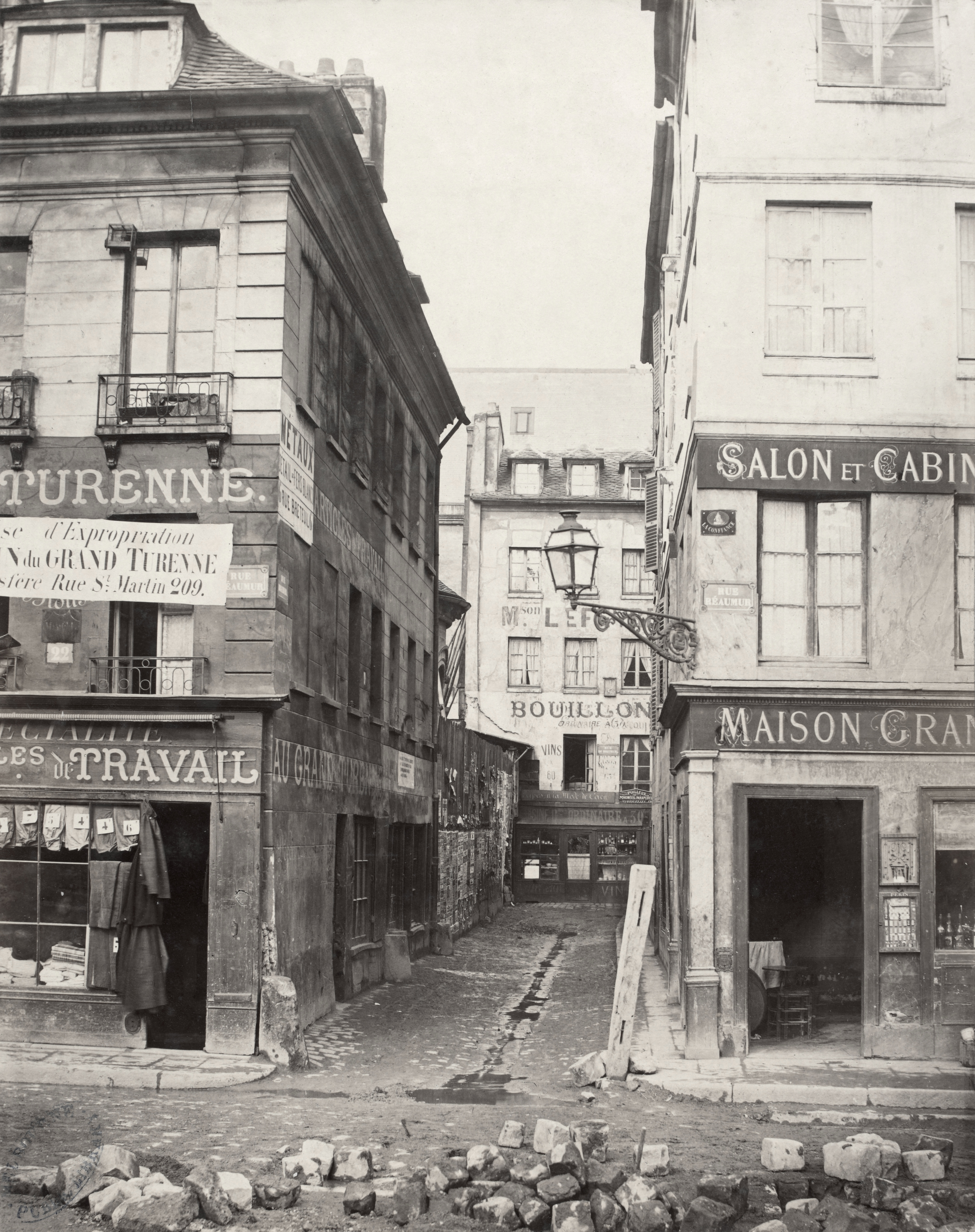 Looking along laneway from intersection with Rue Réaumur, stone blocks piled on road in foreground, shop fronts on either side.